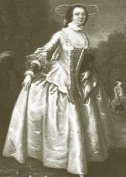 Kitty Clive on stage, probably curtseying to the audience